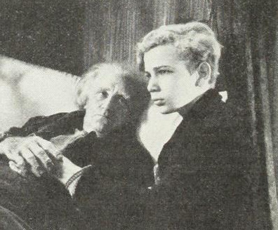 Frankie Thomas and O. P. Heggie in the 1935 film A Dog of Flanders Other information for an explanation of the copyright for information regarding public domain